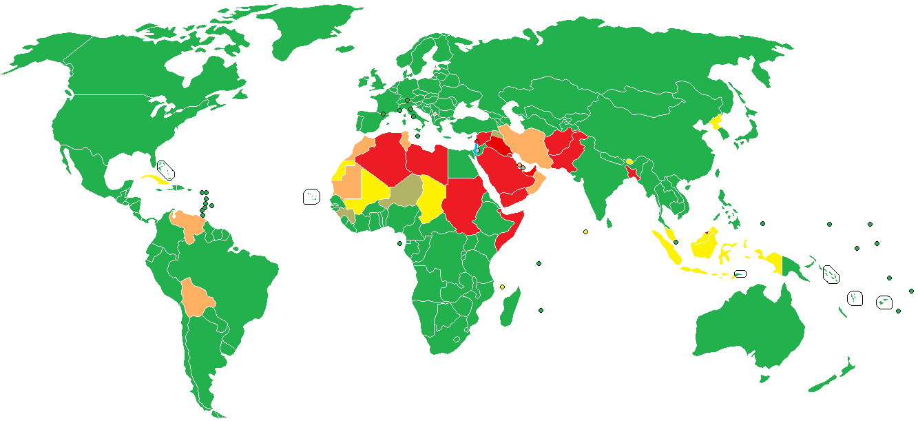 A map of the world, showing the foreign relations of Israel. Green: Diplomatic relations Brown: Only trade relations Yellow: No relations established Orange: Former diplomatic relations Red: No diplomatic relations